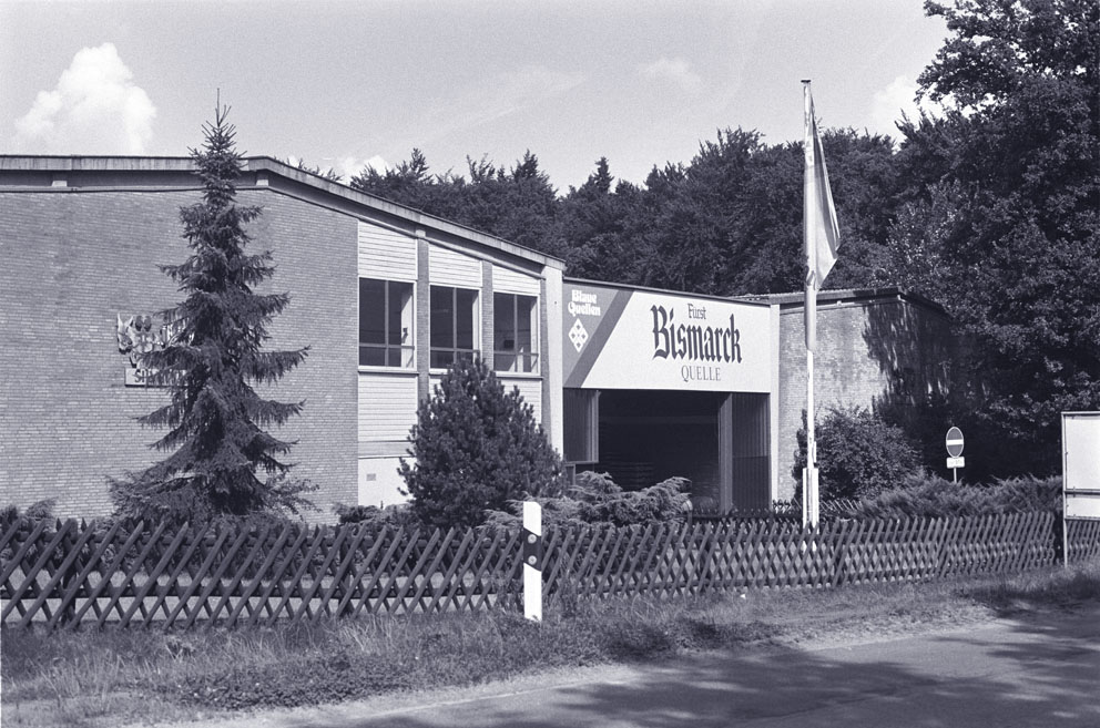 Fürst-Bismarck-Quelle, Reinbek, im August 1981